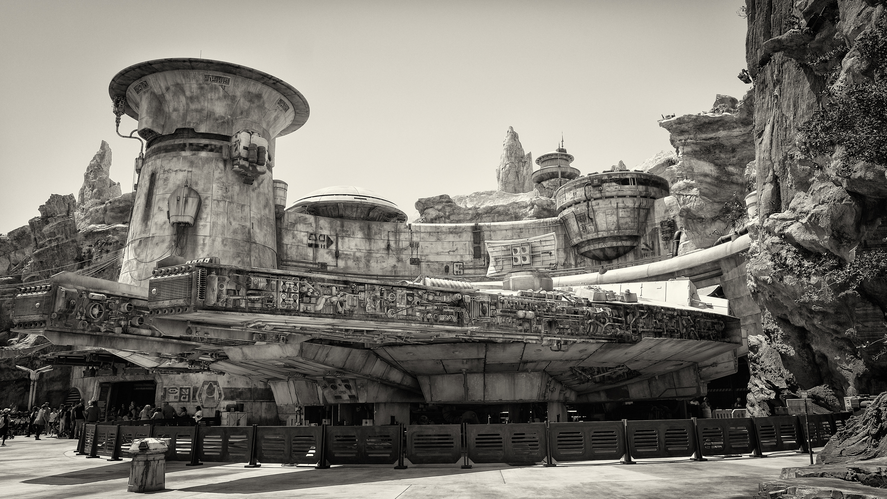 Black and white photograph of the Millennium Falcon at Star Wars: Galaxy's Edge at Disneyland.